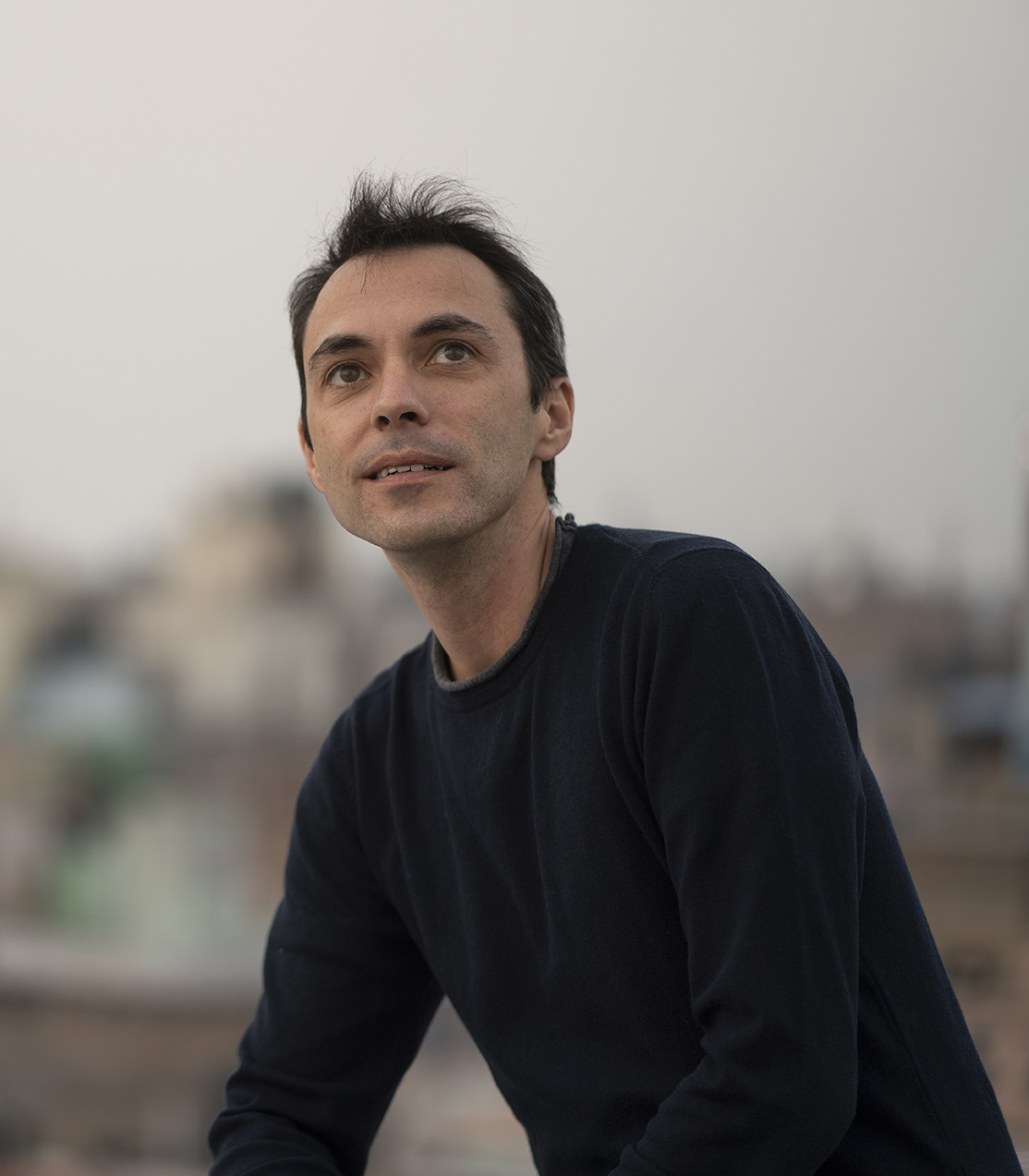 Cropped version of Giuliani Alberto portrait